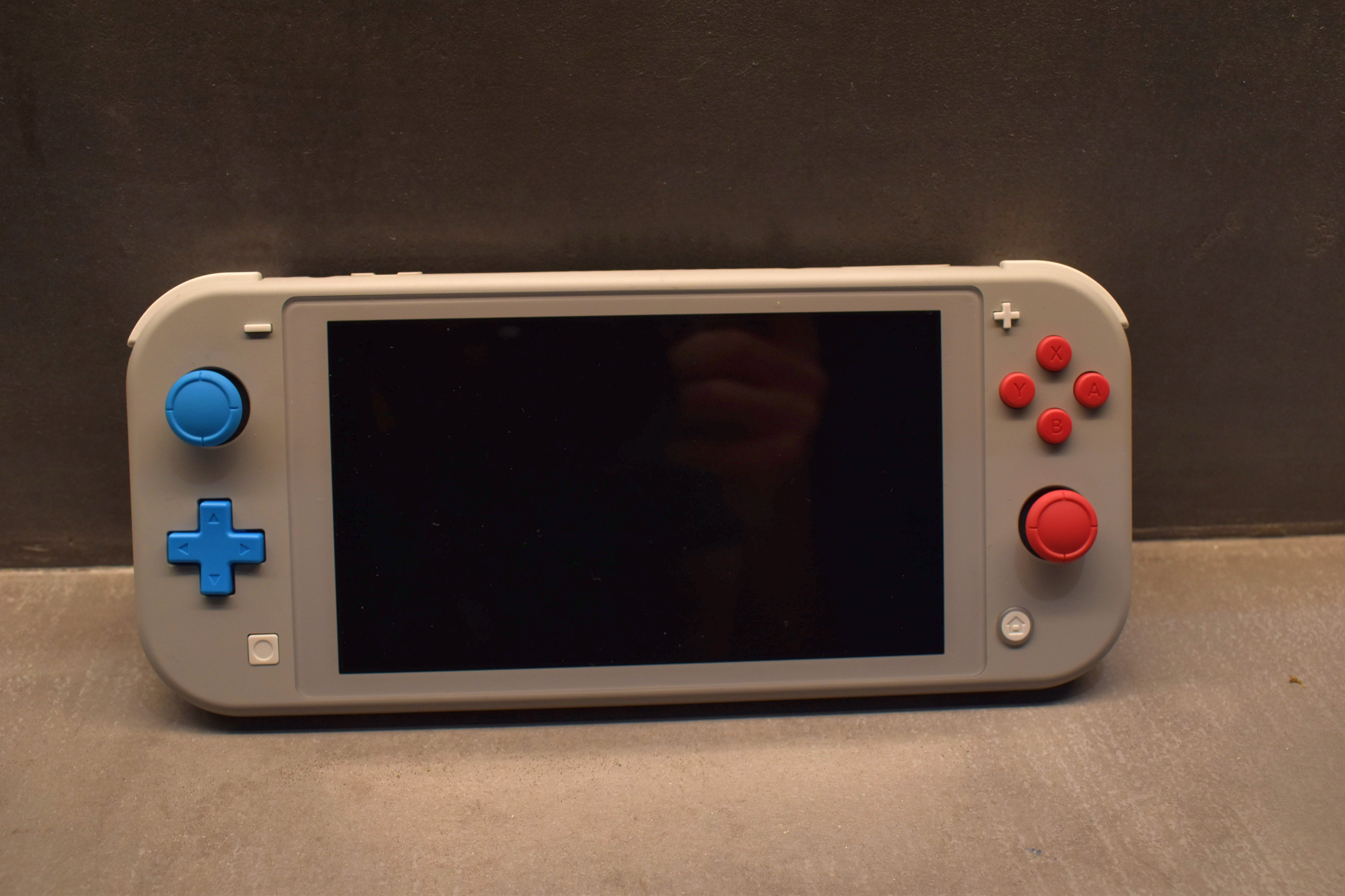 Nintendo Switch Lite Pokémon Zacian and Zamazenta edition.